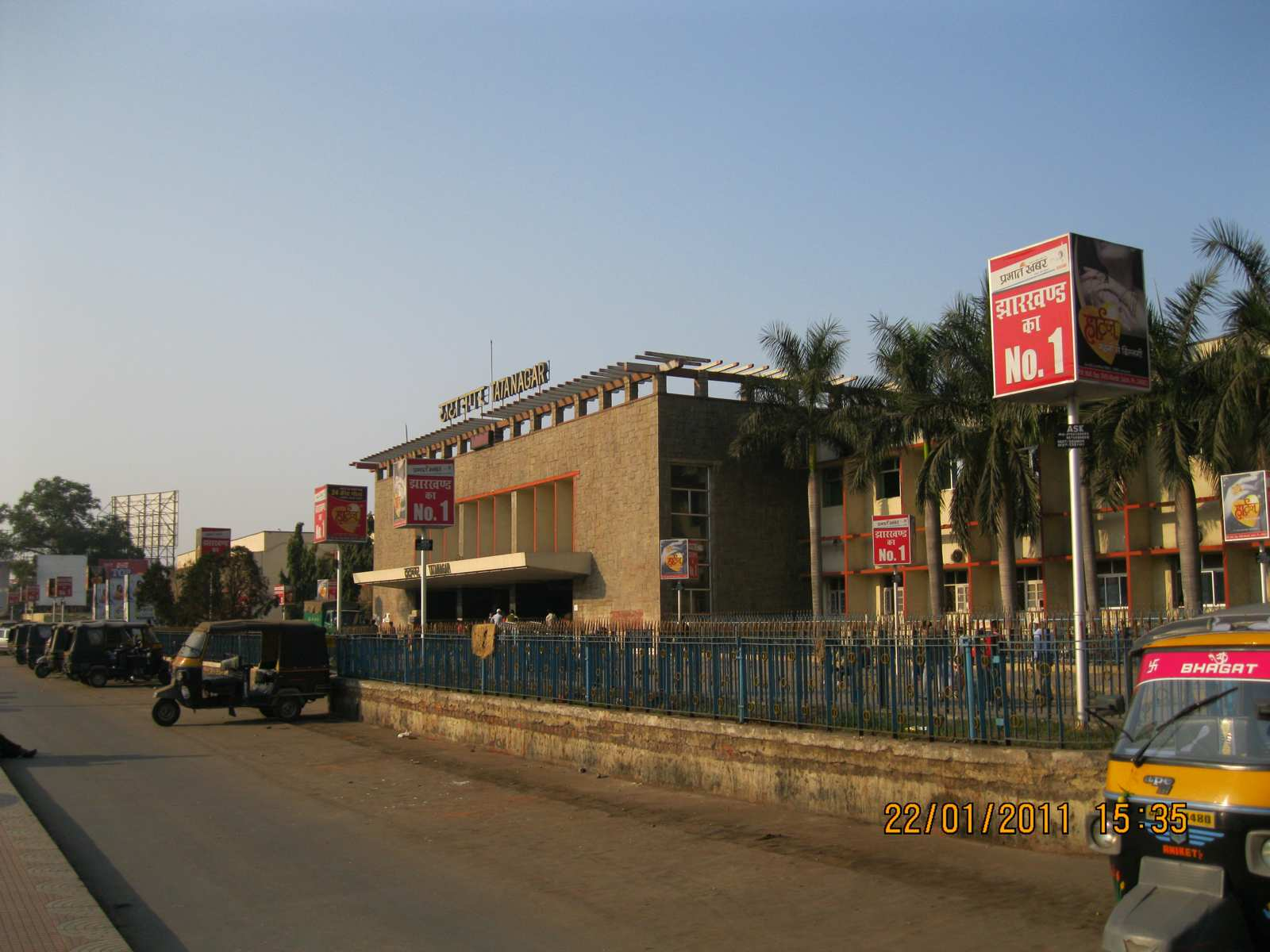 Tatanagar railway station main entrance